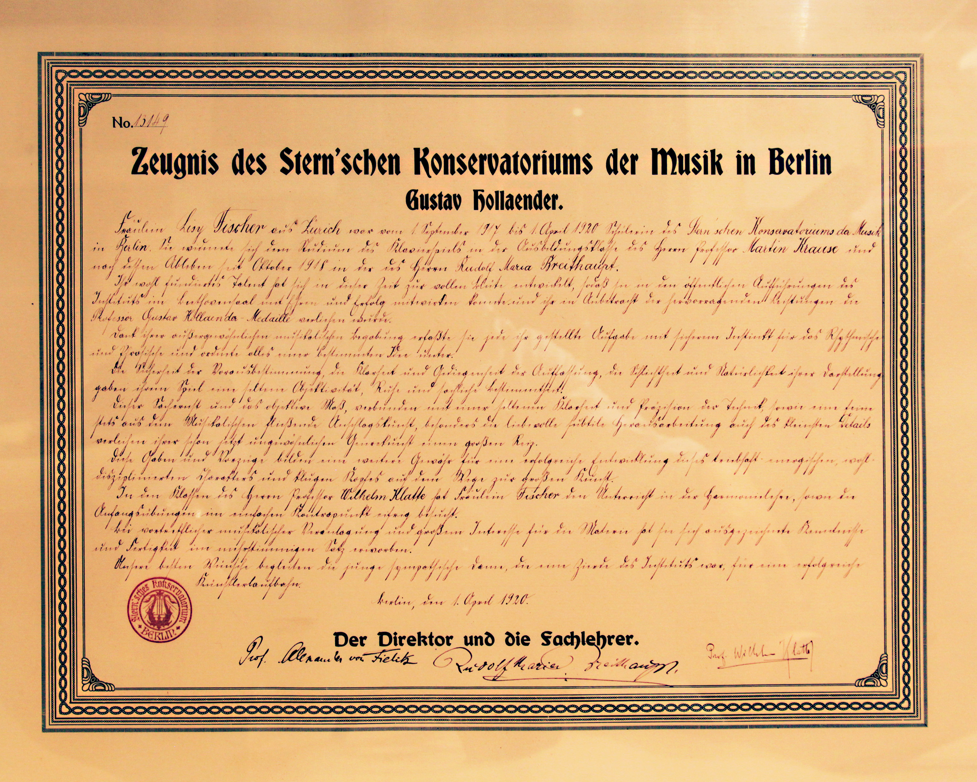 Photograph of original certificate No: 13149 issued by Stern Conservatory Berlin to Lisy Fischer